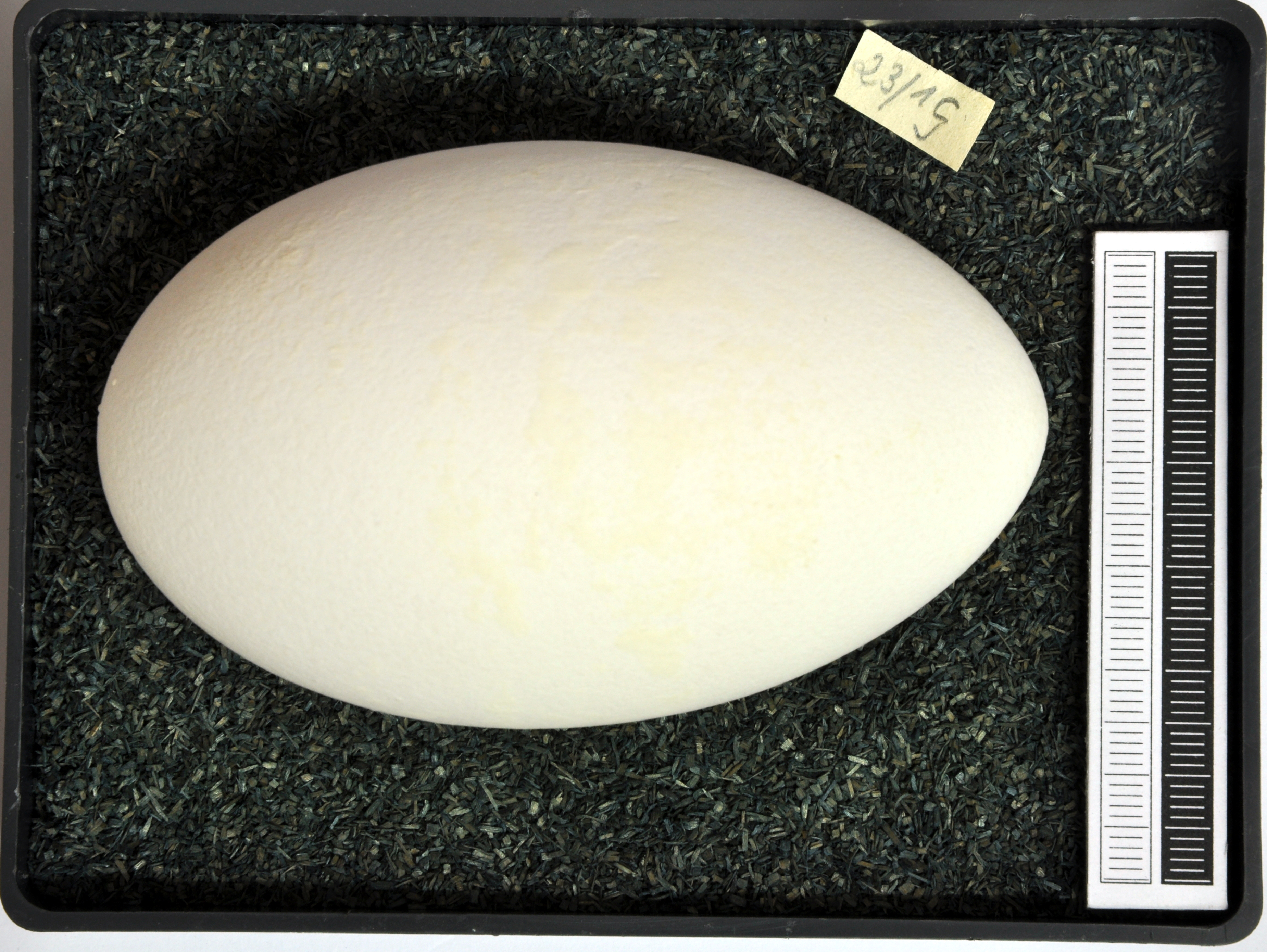 Dalmatian pelican Pelecanus crispus , egg, Coll. Museum Wiesbaden, Origin: Danube Delta, Romania, 08.06.1967, leg. W. Abelmann